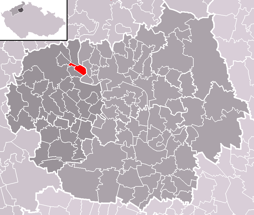 Location of Malé Žernoseky municipality within Litoměřice District and administrative area of Lovosice as a Municipality with Extended Competence.